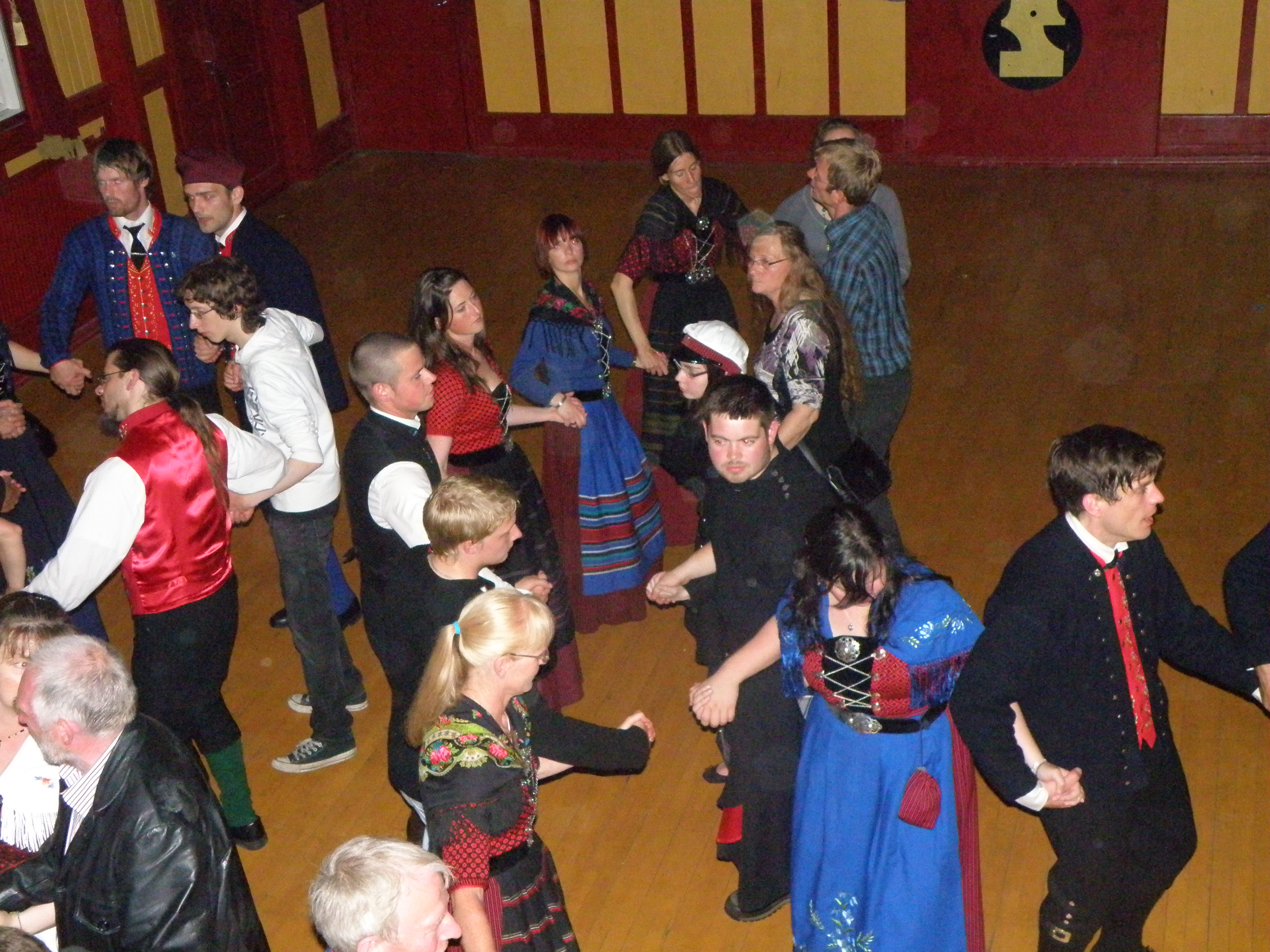 Faroese chain dance in Sjónleikarhúsið in Tórshavn, which started before midnight on 28 July 2011 and ended ar around 3-4 in the morning on 29 July. It is tradition to gather in Sjónleikarhúsið on Ólavsøka. Normally the Faroese chain dance is most active in winther-time. It is tradition not to dance between the Carneval and Easter, a tradtiton which dates back to catholic times in the middle ages. When people gather to dance on Ólavsøka, they come from all the country and sometimes there are some people from other countries too, Faroese who live abroad and foreigners. It is up to each one who participates if they wear the national Faroese costume or if they wear other kind of clothings. Most Faroese people who own national costume wear them at Ólavsøka and other "stevna" festivals. Føroyskt: Føroyskur dansur í Sjónleikarhúsinum í Havn á Ólavsøku 2011.